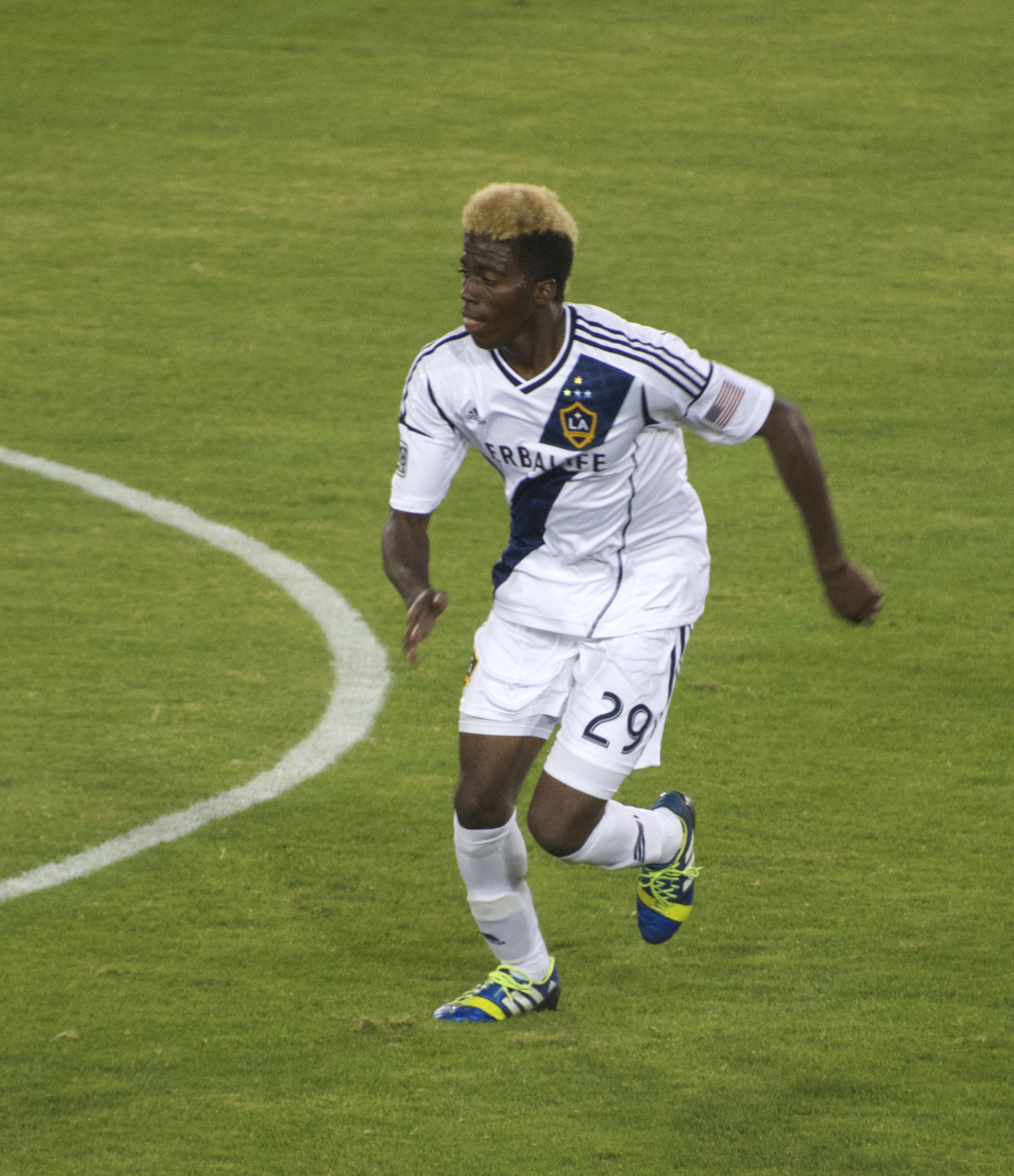 Gyasi Zardes, Stanford Stadium, LA Galaxy vs SJ Earthquakes, Saturday 2013-06-29